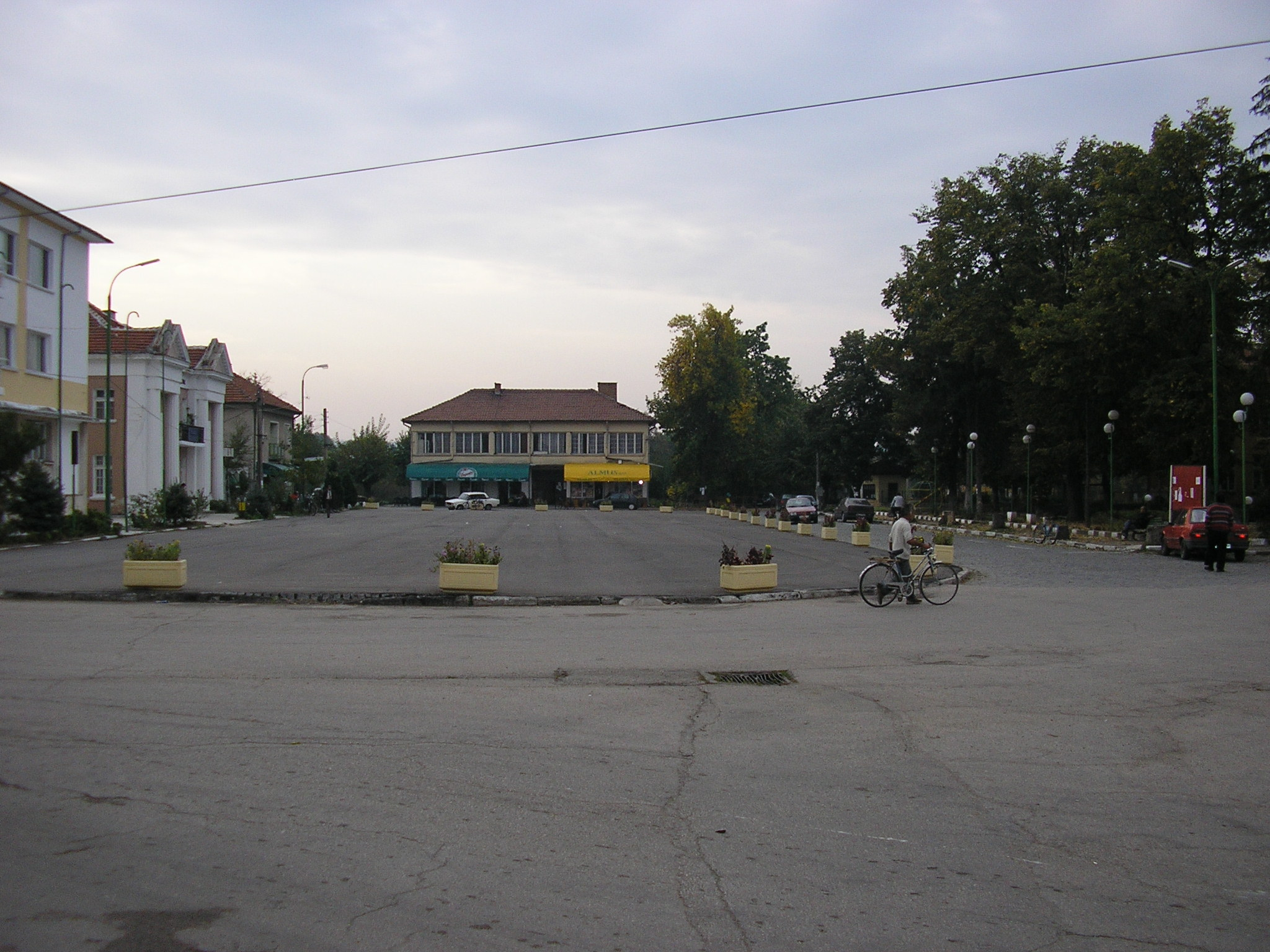 Democracy square in Novo selo, Vidin Province, Bulgaria